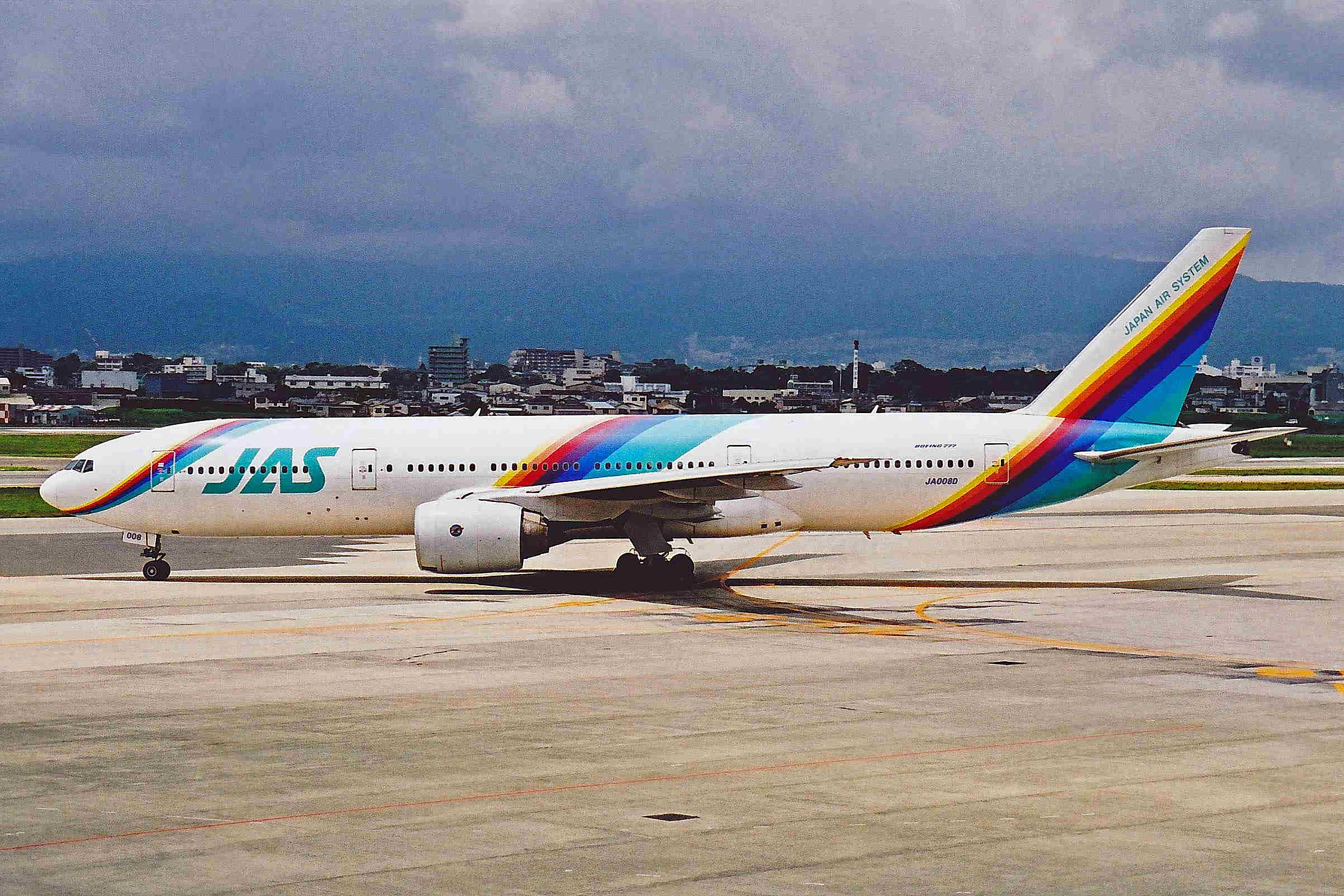 left side.